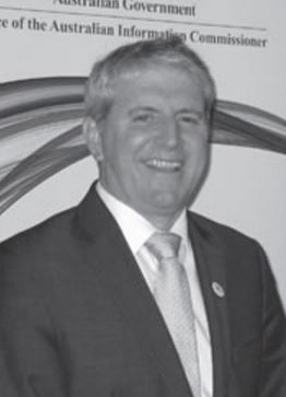 Cropped photo of Australian Home Affairs Minister Brendan O'Connor at the opening of the Sydney Office of the Privacy Commissioner in July 2011